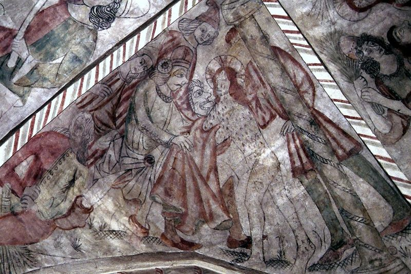 Frescos in Sanderum Kirke.